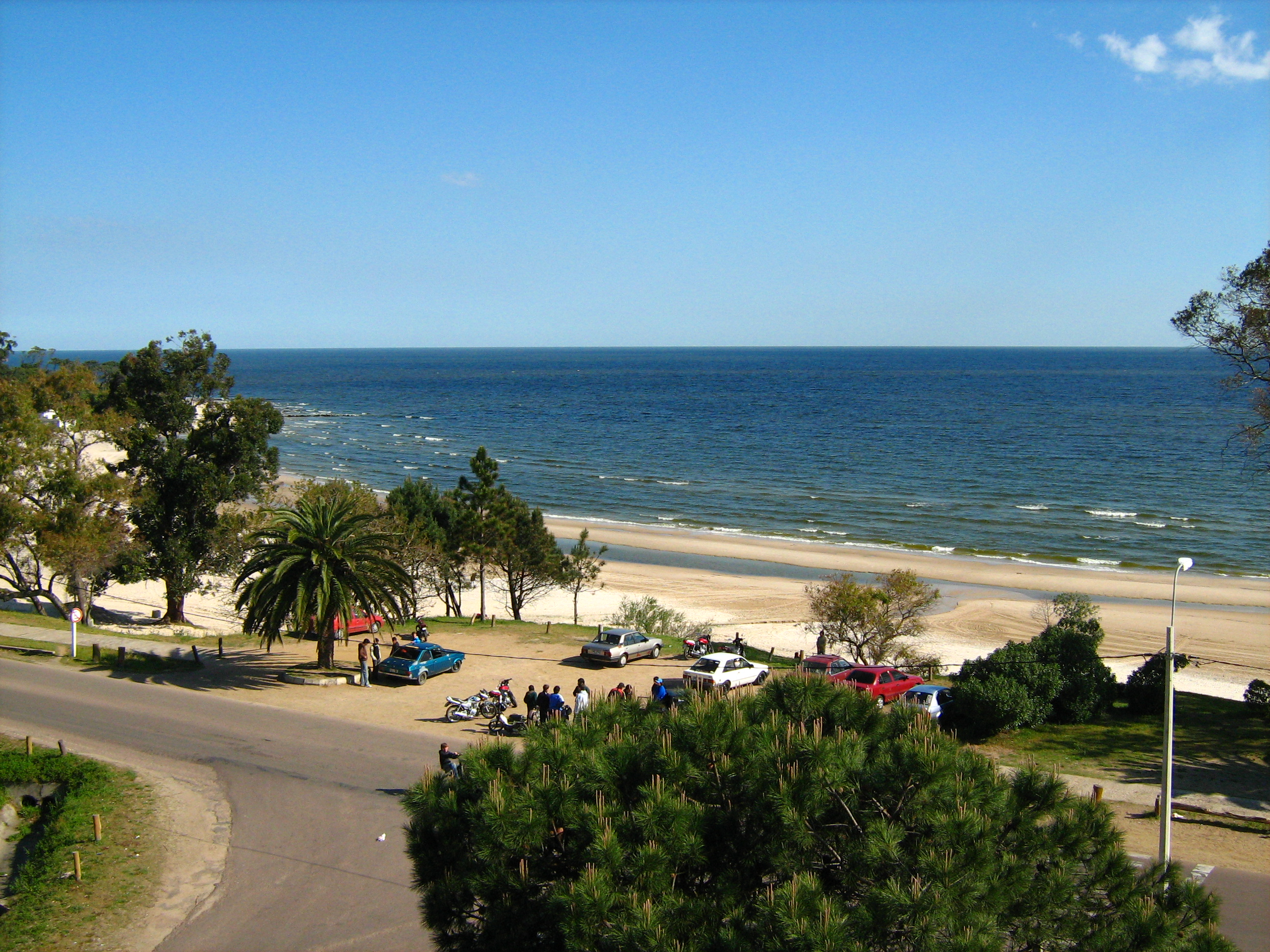 View of Mansa Beach from the ex-Planeta Palace Hotel. Atlántida, Uruguay.